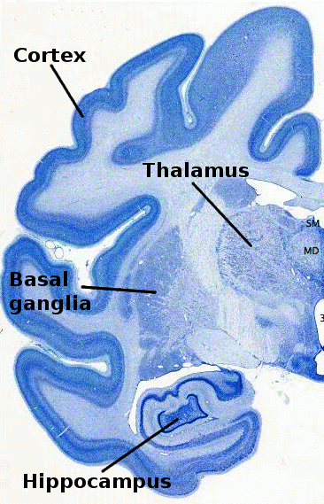 Nissl-stained hemisphere of the brain of a chlorocebus monkey, with several important forebrain structures indicated. This image was modified, using GIMP, from a screenshot obtained from the web site.